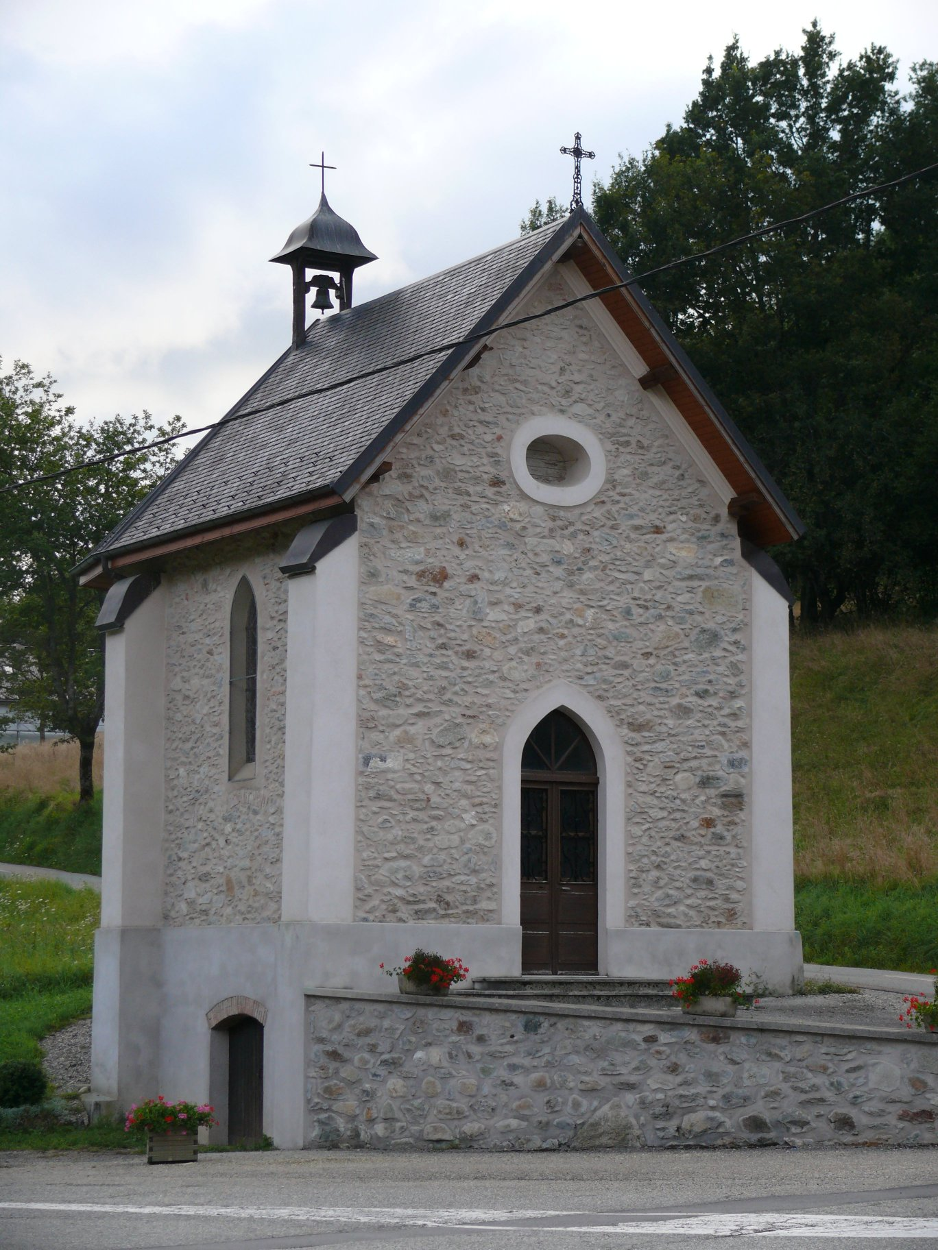 Our-Lady-of-Lourdes' chapel of Bourget-en-Huile (Savoie, Rhône-Alpes, France).